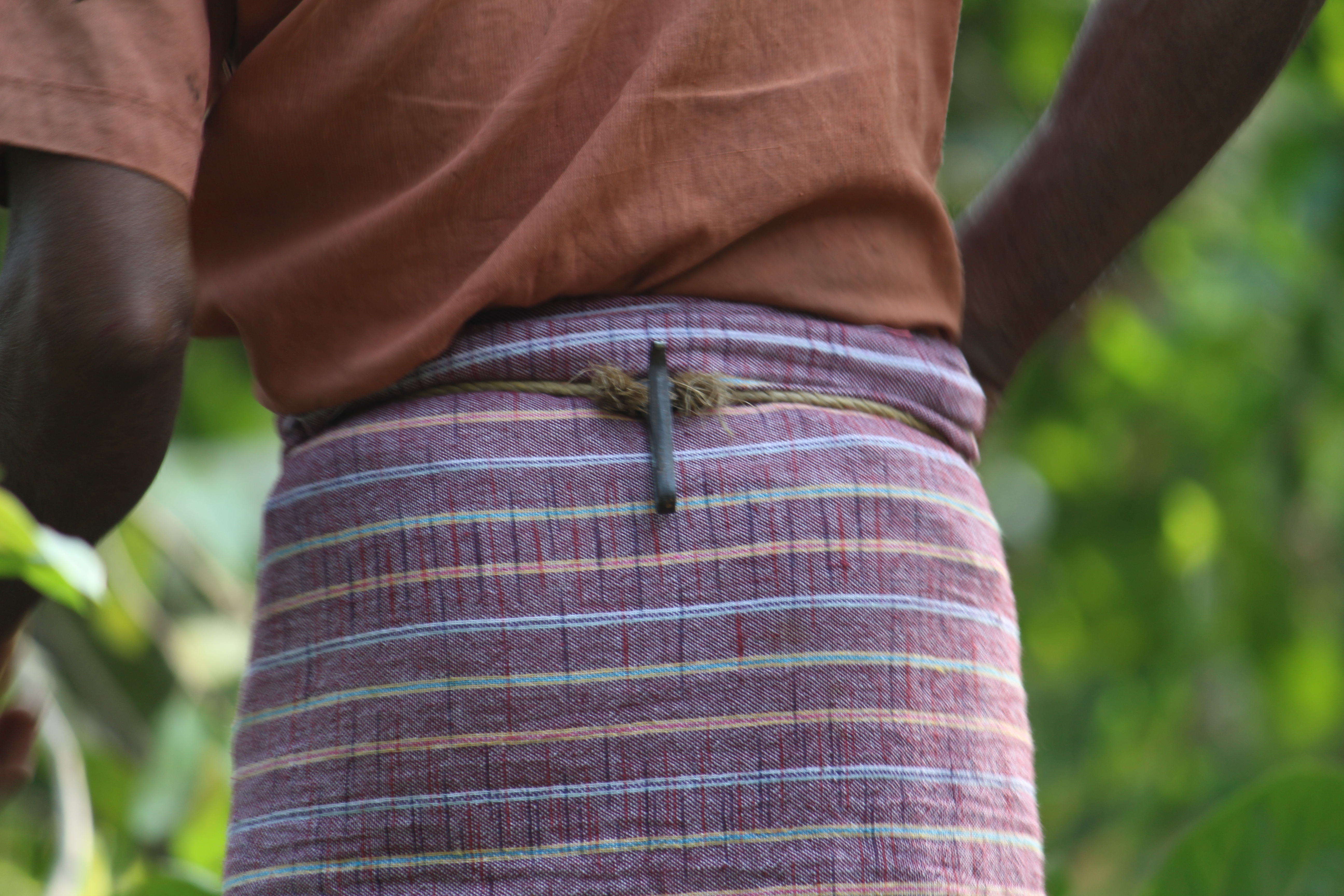 instrument to hang down sickle type cutting sword, in Kerala,India